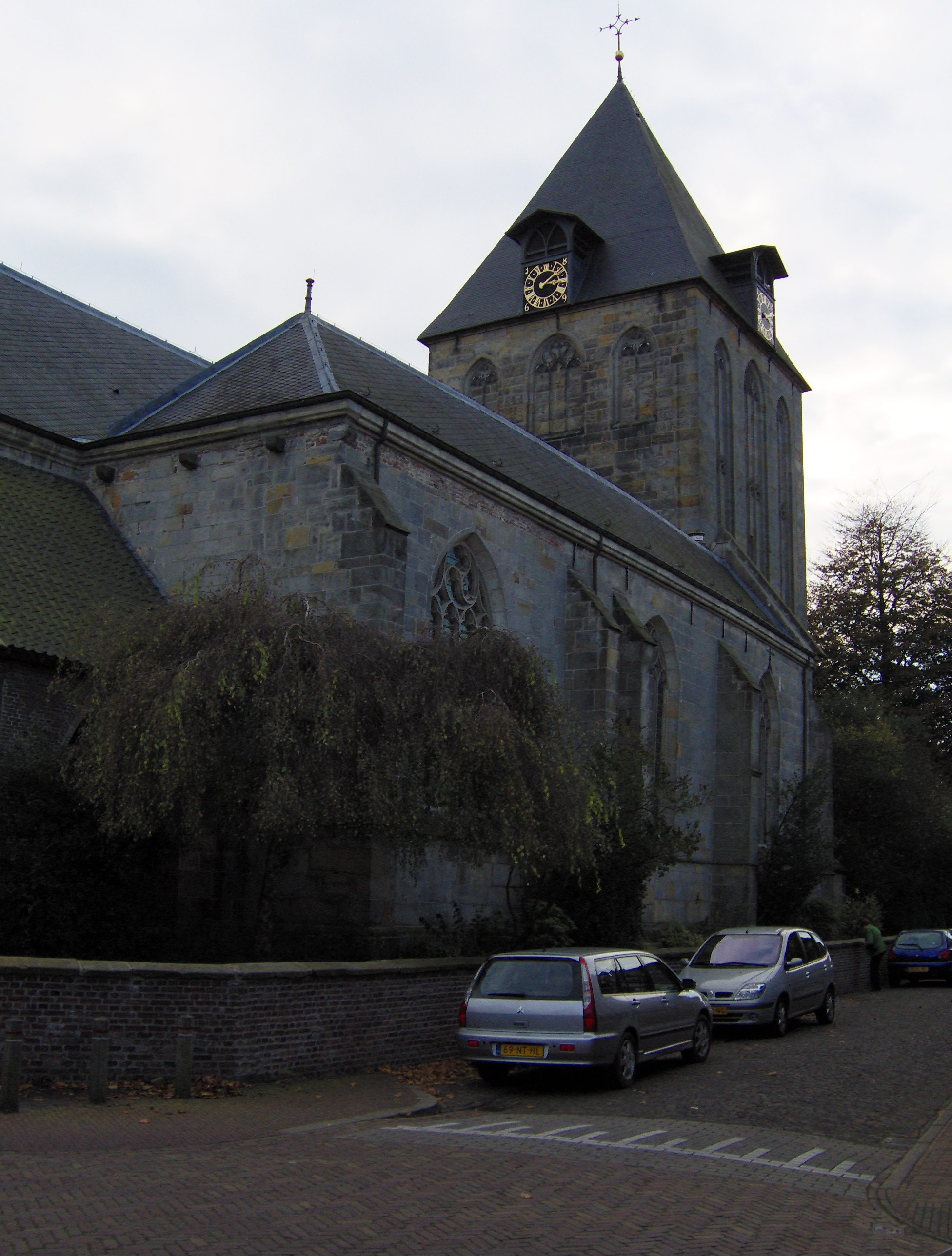 The Oude Blasiuskerk in the city of Delden in the province of Overijssel, the Netherlands